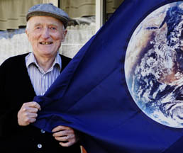 John McConnell in front of his home Denver Colorado, USA with his Earth Flag he designed - photographed by Charles Michael Murray.